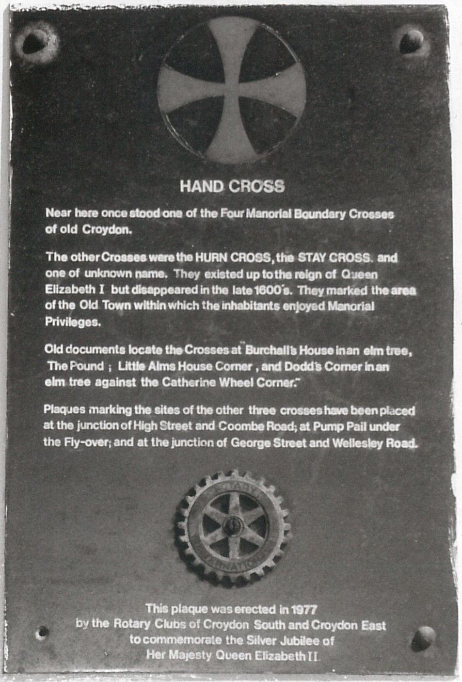 Plaque recording the site of the medieval and early modern town boundary cross known as Hand Cross in Church Street, Croydon. The plaque was erected 1977 by the Rotary Clubs of Croydon South and Croydon East to commemorate the Silver Jubilee of Queen Elizabeth II. It was placed on 110 Church Street, part of the northern buildings of the House of Reeves furniture store. This building was destroyed in an arson attack during the riots of August 2011.